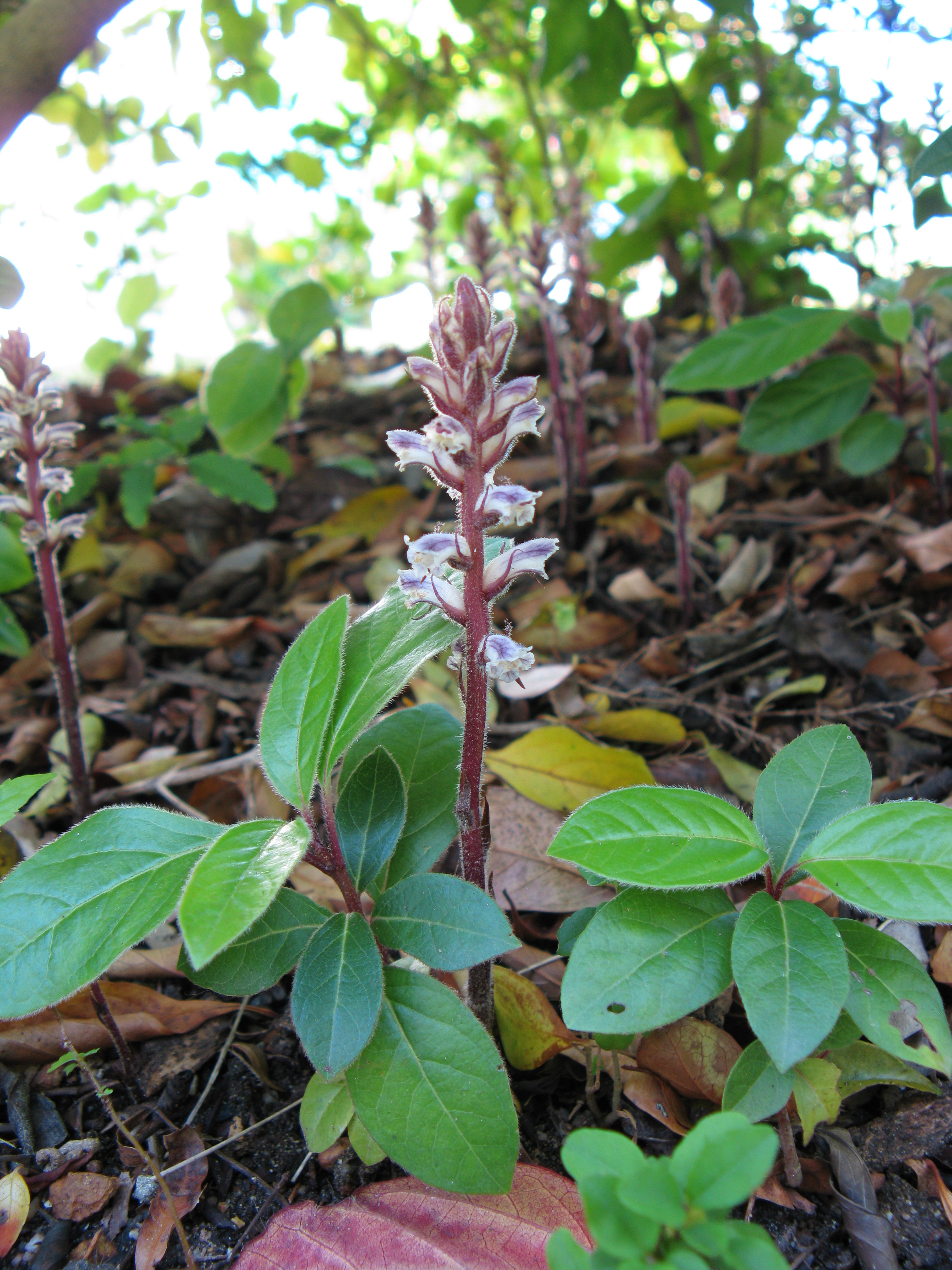 Orobanche ramosa is a parasitic plant known as Branched Broomrape or Hemp Broomrape.